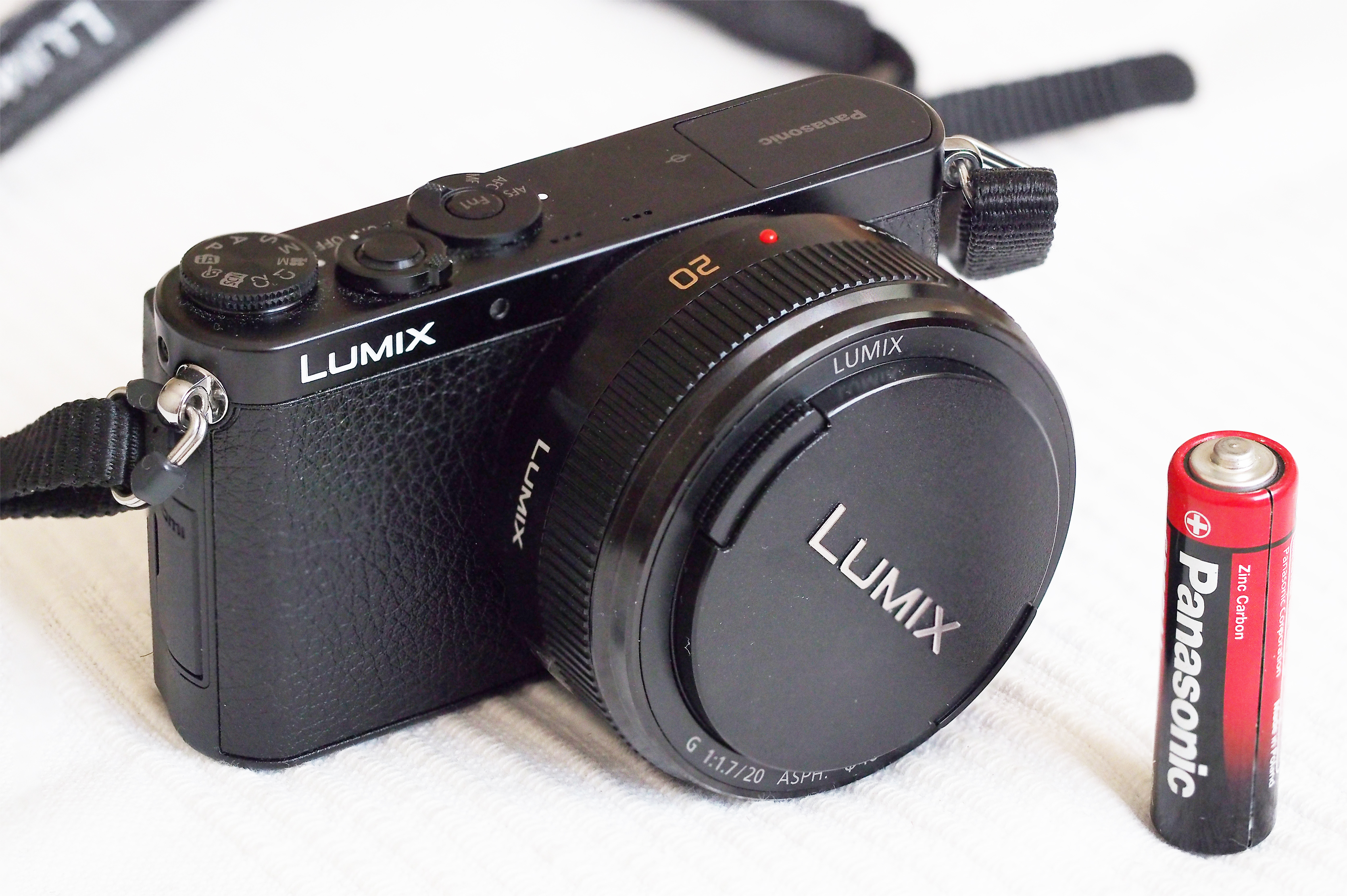 Panasonic Lumix GM1 with Panasonic Lumix lens 20mm f/1.7 II side by side with AA battery to get objective feeling about camera size.